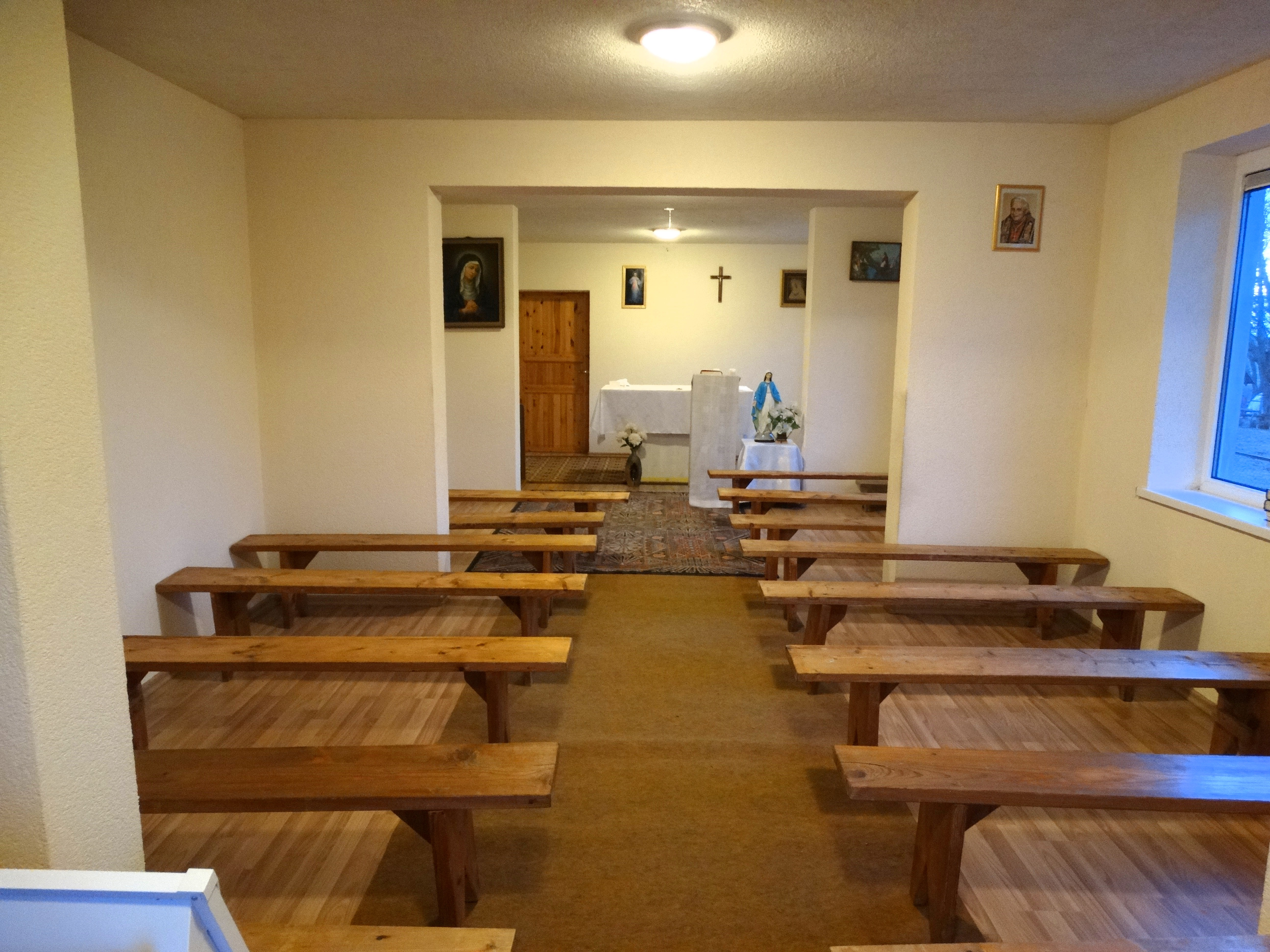 Chapel in Juknėnai, Utena district, Lithuania